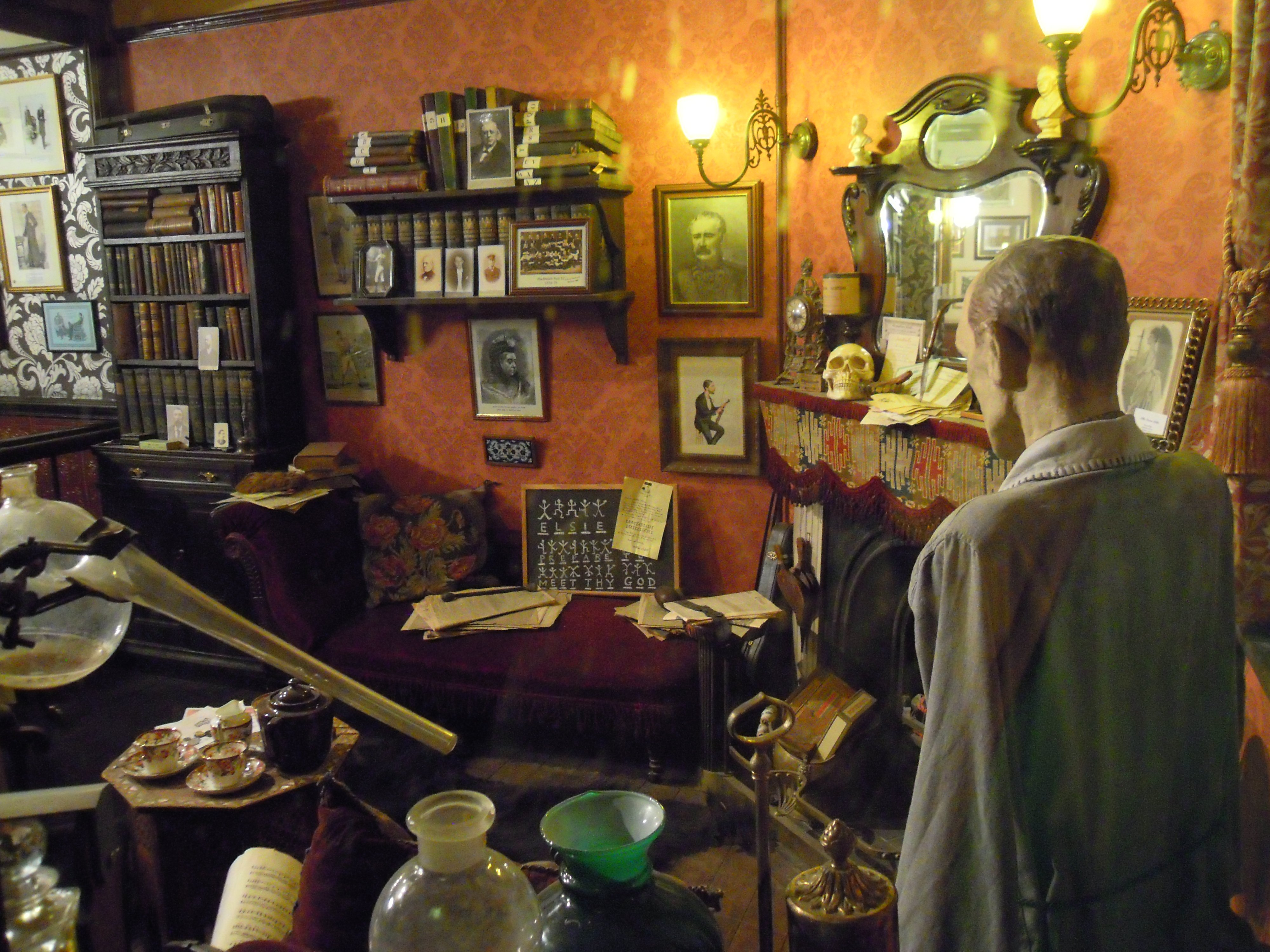 Reconstruction of the sitting room of 221B Baker Street at The Sherlock Holmes themed public house in London